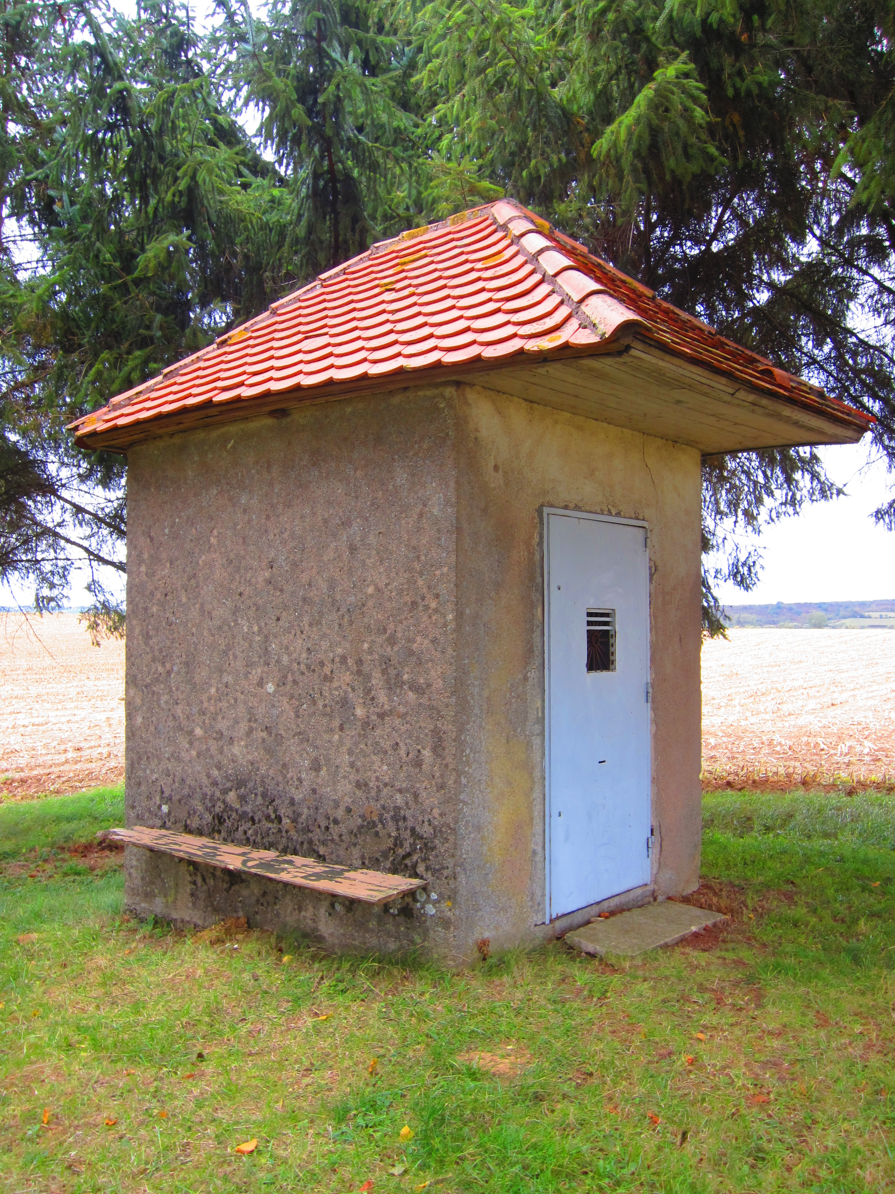 Lemud chapel